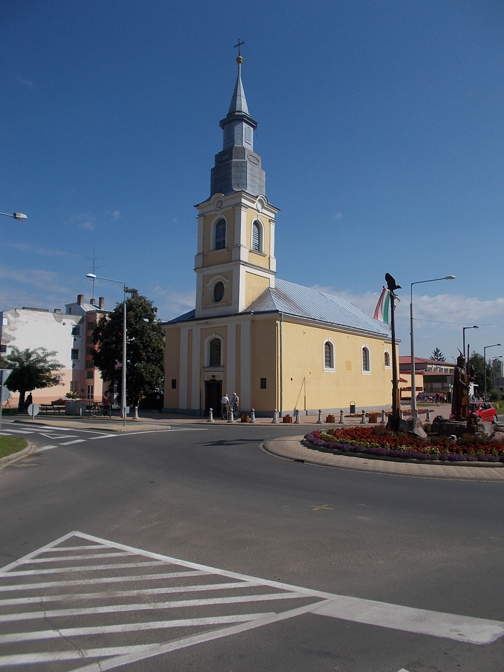 Saints Peter and Paul church - Kossuth Square, Fehérgyarmat, Szabolcs-Szatmár-Bereg County, Hungary.